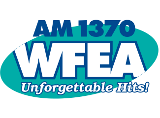 Logo of WFEA-AM in Manchester, USA History of File:WFEA-GOOD.jpg 2008-11-25T18:26:24Z OKBot (Talk